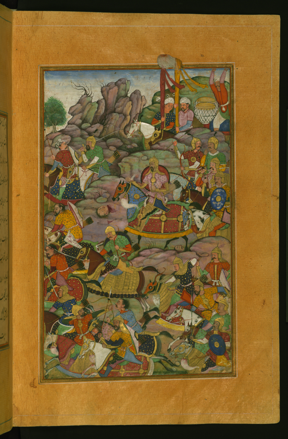 Illustrations from the Manuscript of Baburnama (Memoirs of Babur) - Late 16th Century Bāburnāma is the memoirs of Ẓahīr ud-Dīn Muḥammad Bābur (1483-1530), founder of the Mughal Empire and a great-great-great-grandson of Timur. It is an autobiographical work, originally written in the Chagatai language, known to Babur as "Turki" (meaning Turkic), the spoken language of the Andijan-Timurids. Because of Babur's cultural origin, his prose is highly Persianized in its sentence structure, morphology, and vocabulary,and also contains many phrases and smaller poems in Persian. During Emperor Akbar's reign, the work was completely translated to Persian by a Mughal courtier, Abdul Rahīm, in AH (Hijri) 998 (1589-90). These Paintings, being a fragment of a dispersed copy, was executed most probably in the late 10th AH /16th CE century. It contains 30 mostly full-page miniatures in fine Mughal style by at least two different artists. Another major fragment of this work (57 folios) is in the State Museum of Eastern Cultures, Moscow.